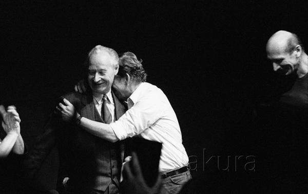 Václav Havel embraces Alexander Dubček at a meeting in the Laterna Magika theatre in Prague, at 24 November 1989, witnessed by journalist Jiří Černý. That same night the whole leadership of the Czechoslovak Communist Party resigns. Personality rights warningAlthough this work is freely licensed or in the public domain, the person(s) shown may have rights that legally restrict certain re-uses unless those depicted consent to such uses. In these cases, a model release or other evidence of consent could protect you from infringement claims.